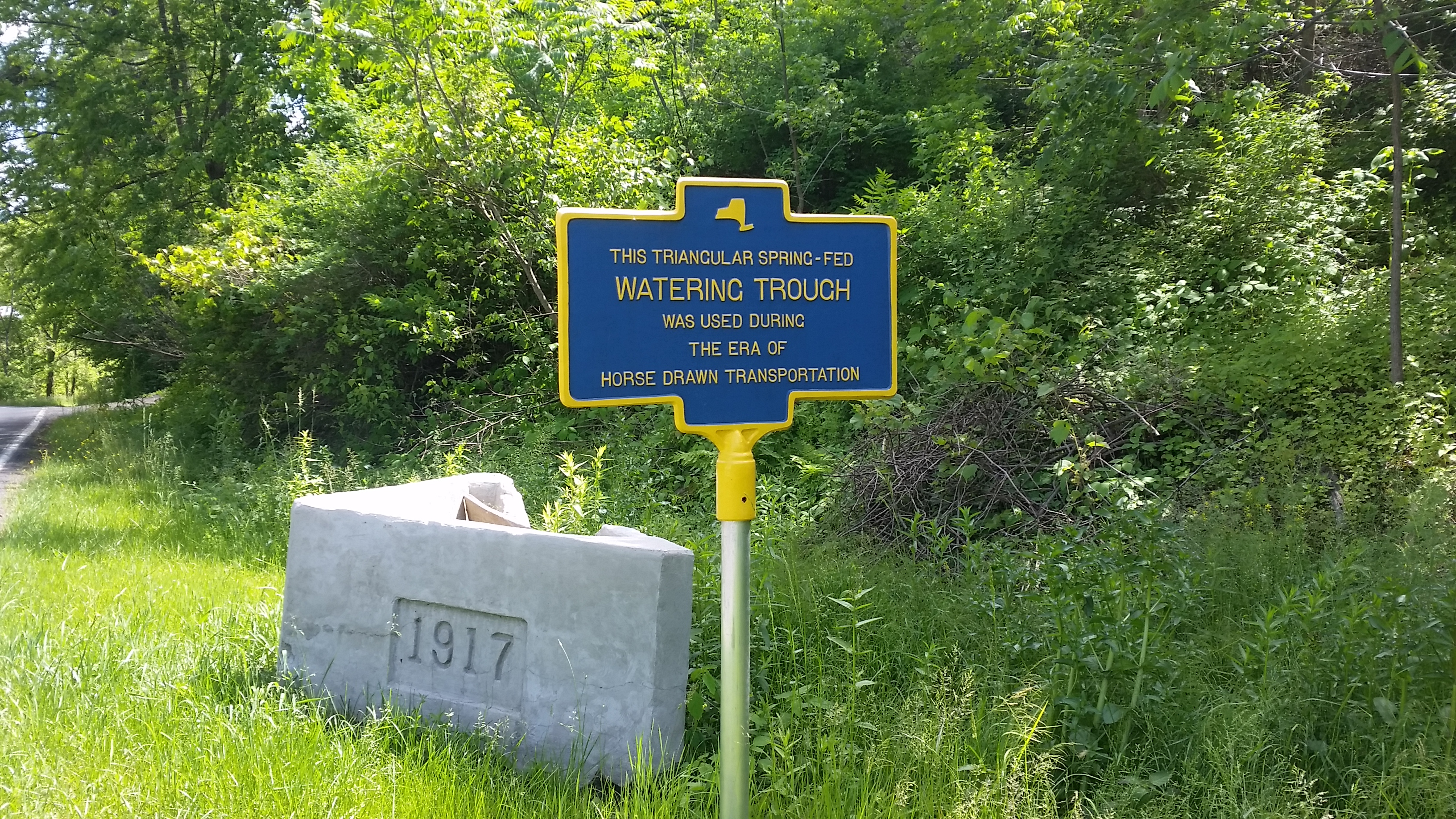 NY State historical marker for a watering trough outside Alligerville, NY